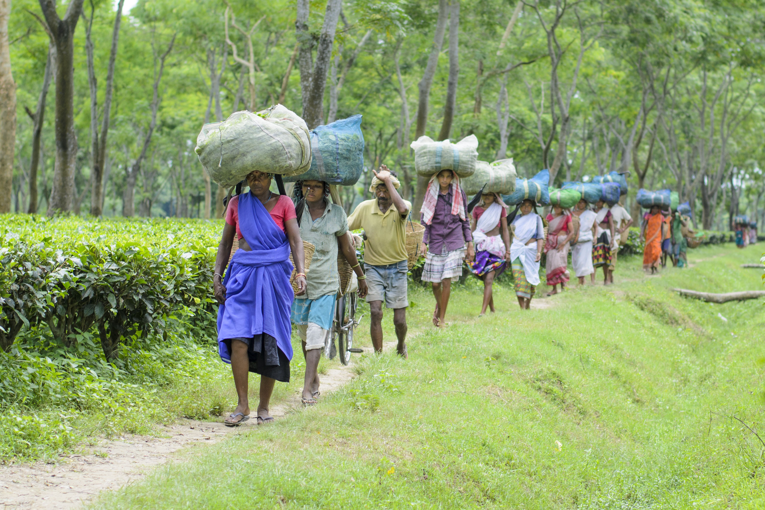 Tea garden workers returning to their home after morning work at Kalaigaon